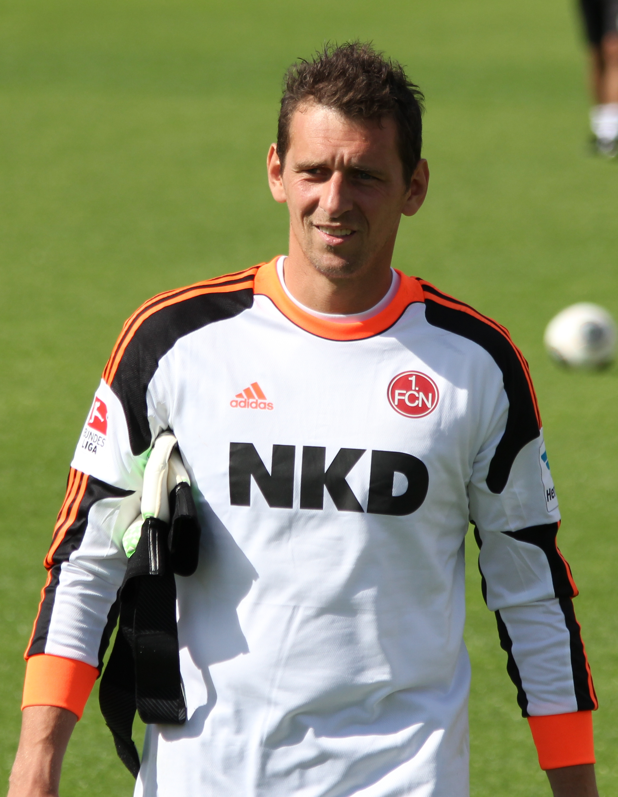 Raphael Schäfer, football goalkeeper for German side 1. FC Nürnberg, 2013/14 season, first training session